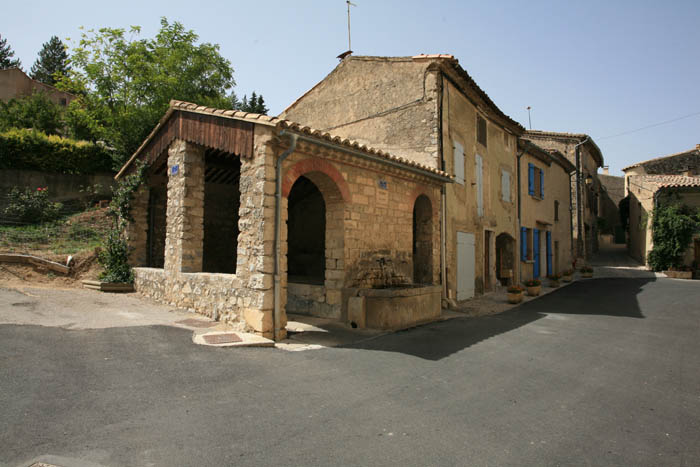 "lavoirs" in the village of Savoillan - Vaucluse, France